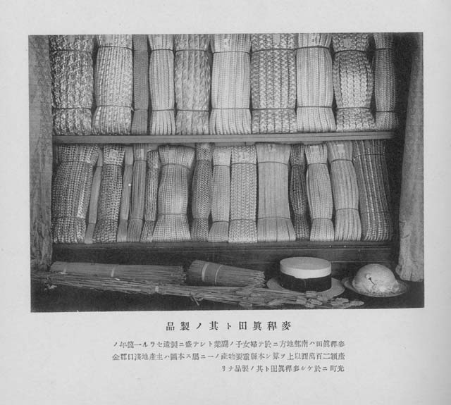 straw cord called "Sanada himo" and its products in Okayama prefecture.